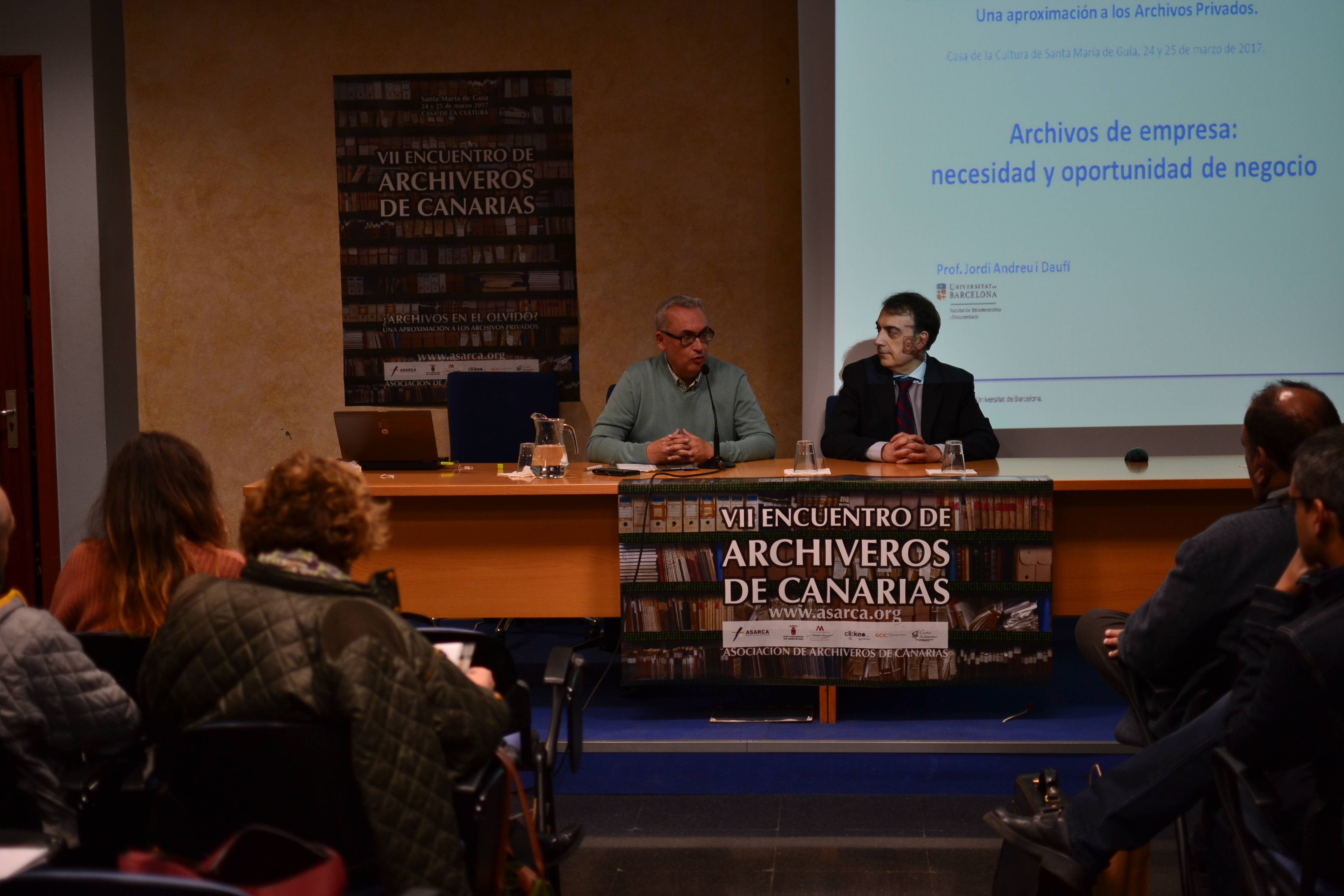 Lecture of Jordi Andreu i Daufi at the VII Meeting of Archivists of the Canary Islands (VII Encuentro de Archiveros de Canarias, 2017) made by ASARCA (Association of Archivists of the Canary Islands) in House of Culture (Casa de la Cultura) of (Canary Islands, Spain).